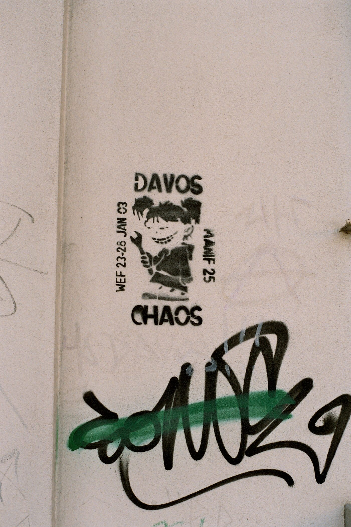 Views of Lausanne